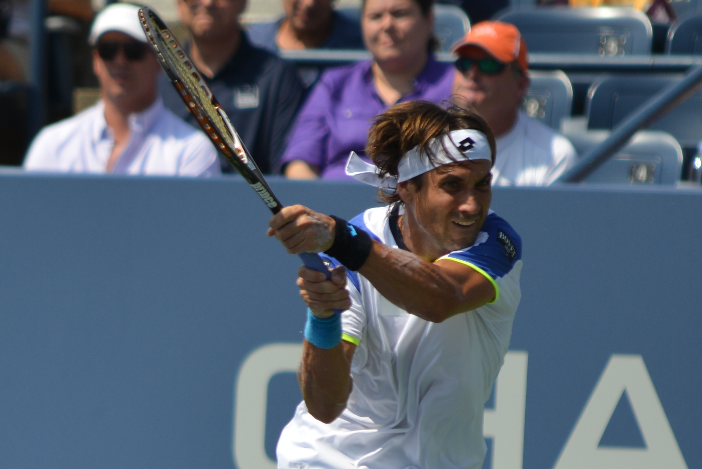 David Ferrer at the 2013 US Open